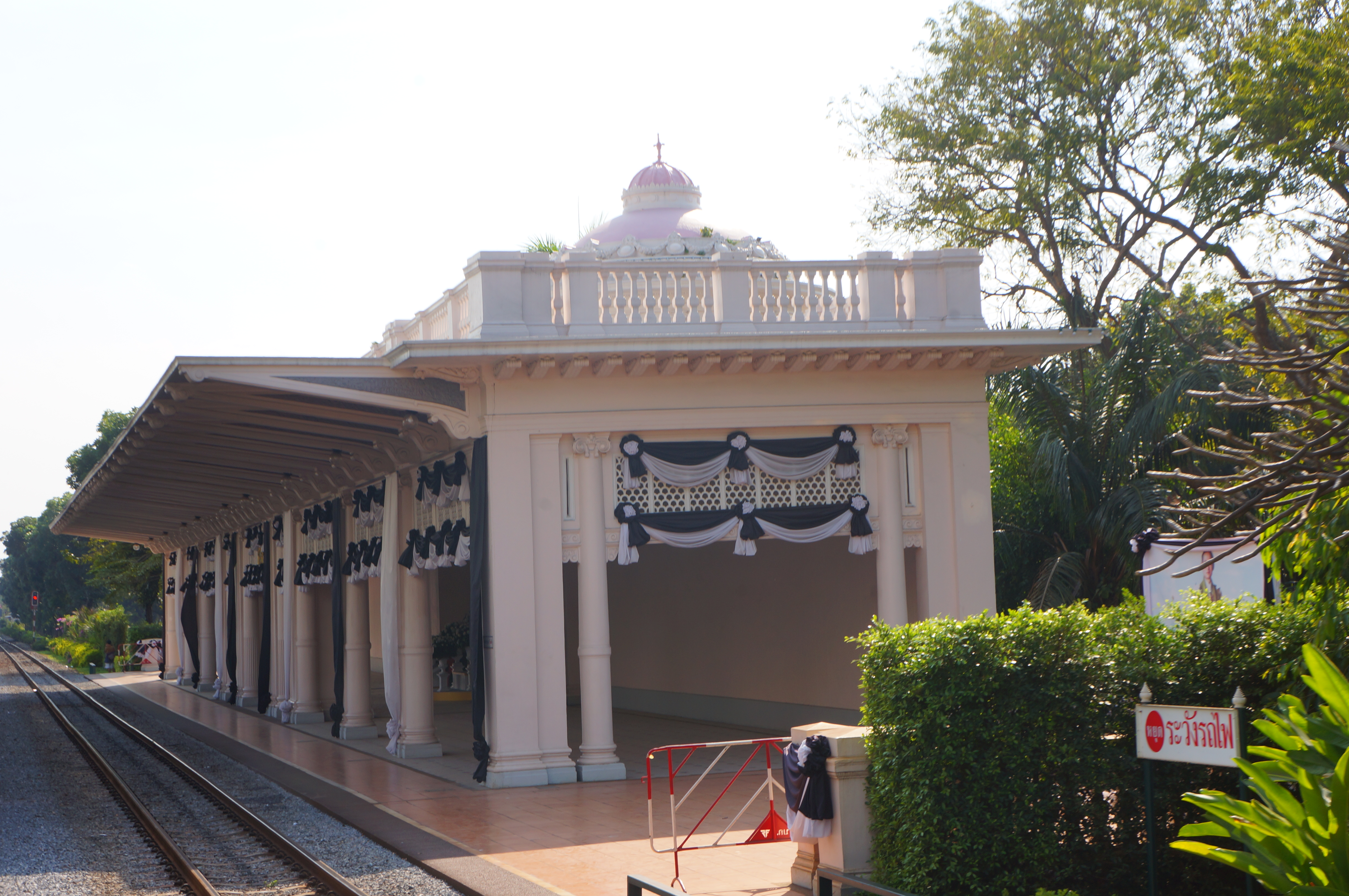 201701 Station building of Chitralada Station